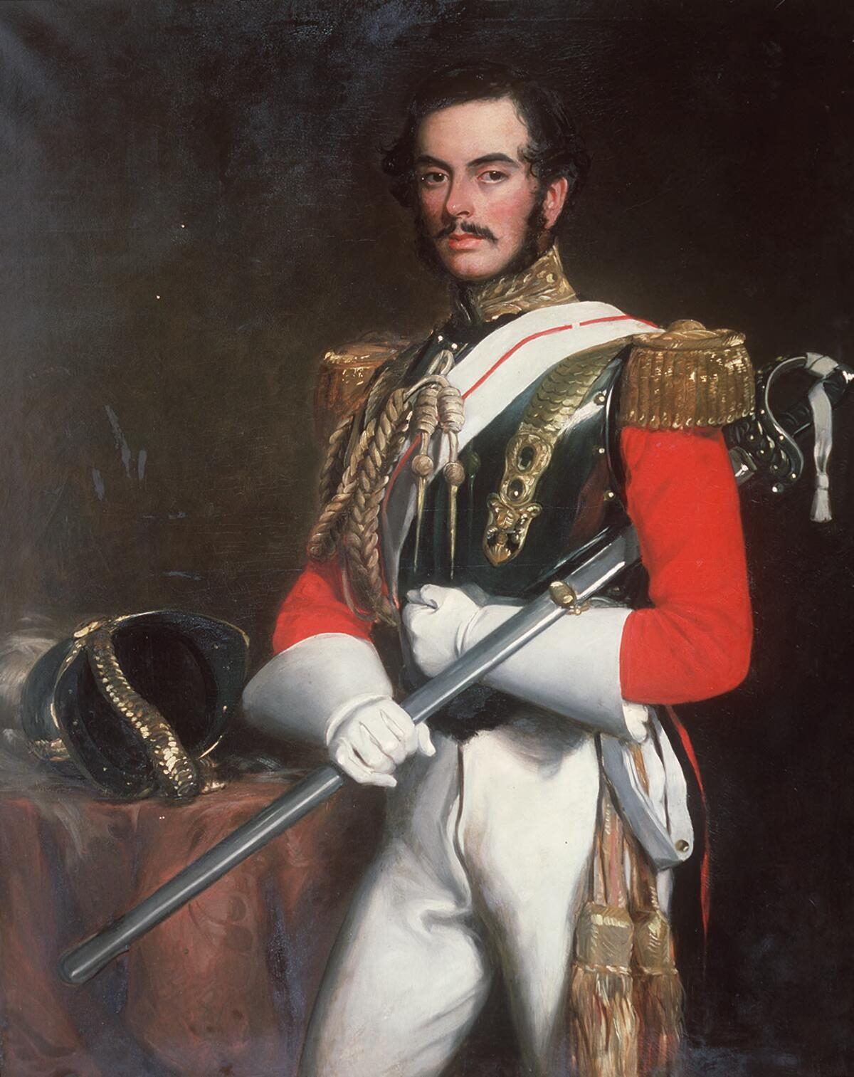 A painting from the Framed Works of Art collection at the National Library of wales.